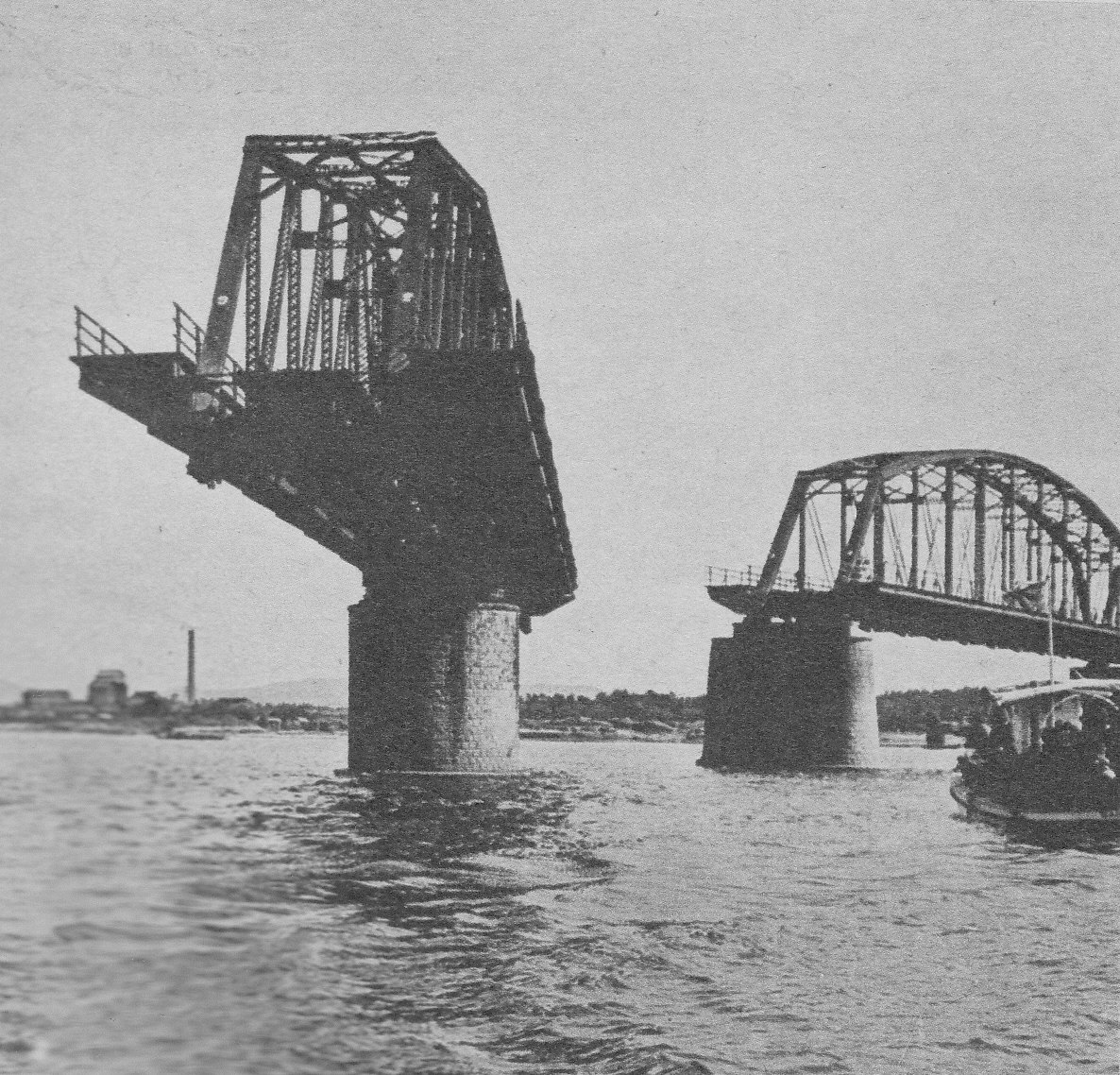 Swinging Yalu River Short Bridge